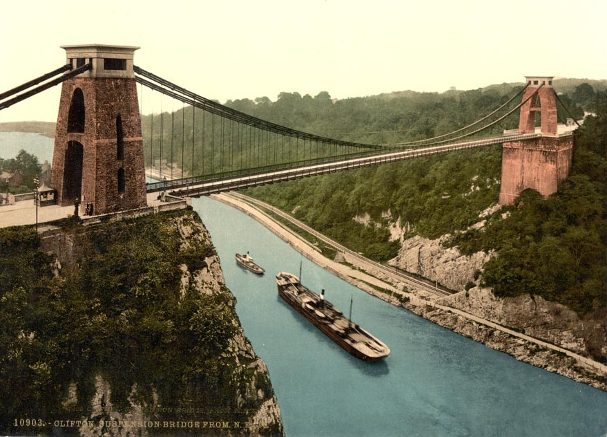 Clifton suspension bridge from the north east cliffs Bristol England